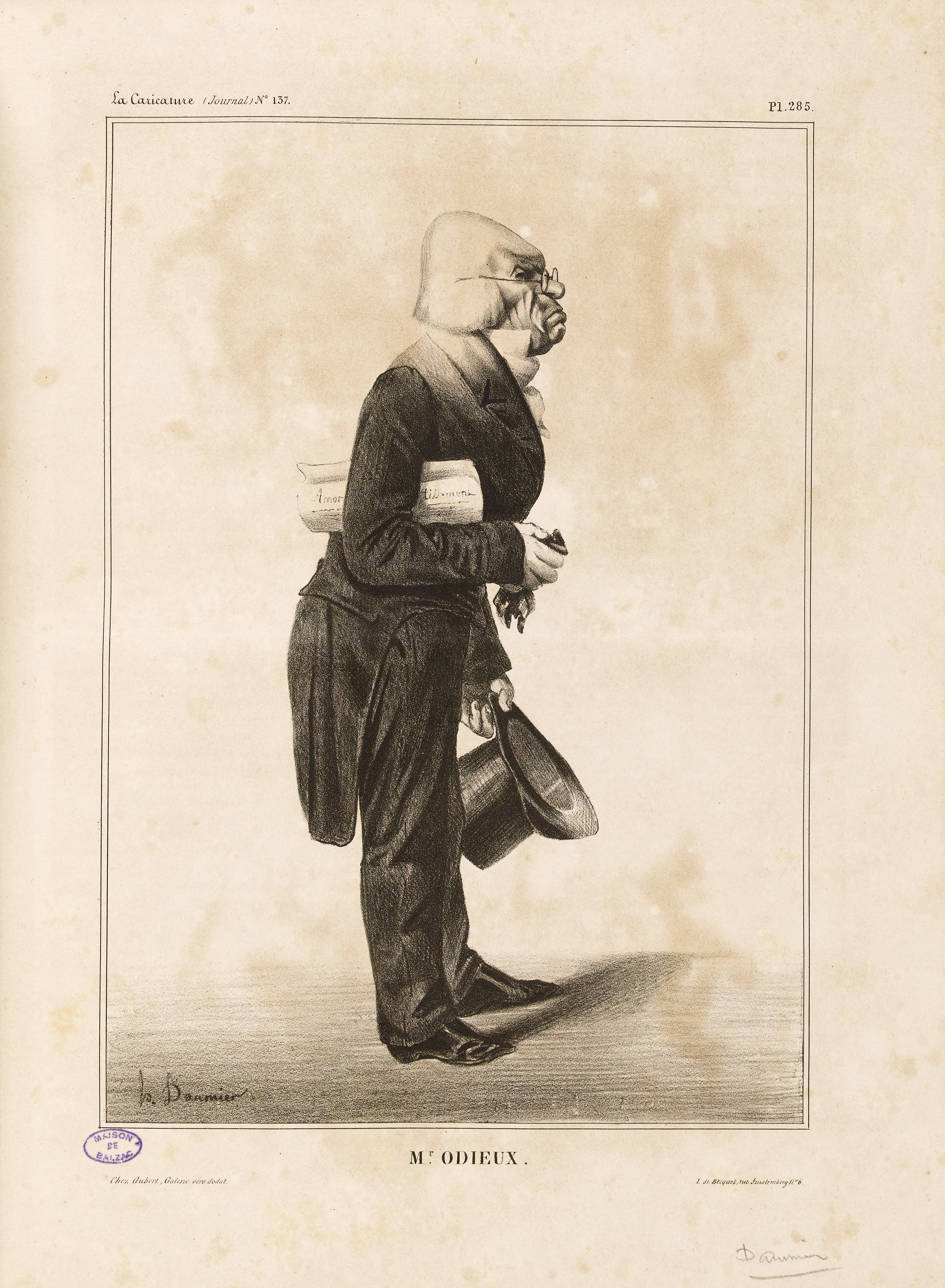 Caricature of Antoine Odier published in La Caricature. National Gallery of Art, Rosenwald Collection, 1943.3.2927